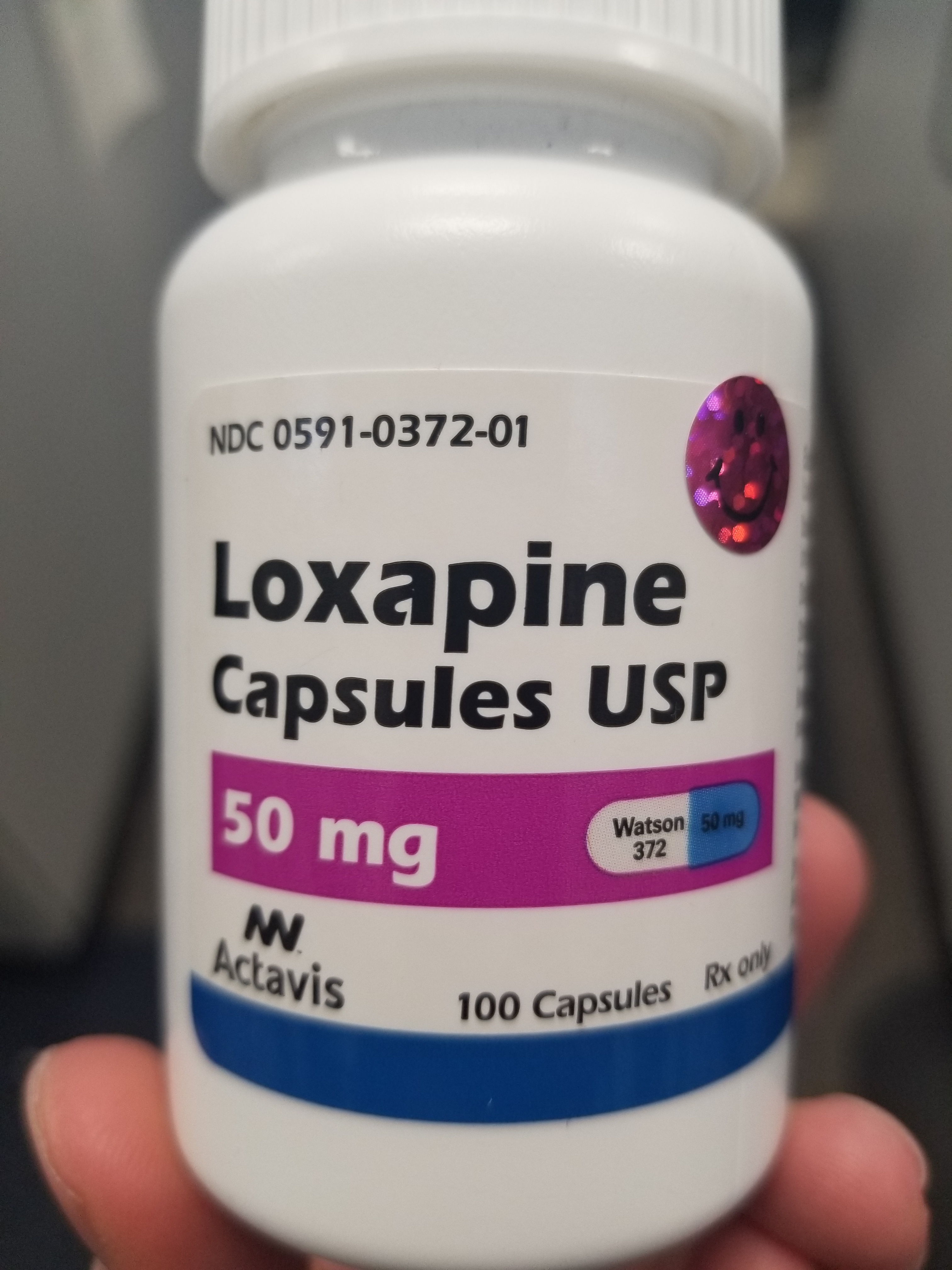 A 100-count bottle of 50 mg strength loxapine capsules USP, by Actavis.